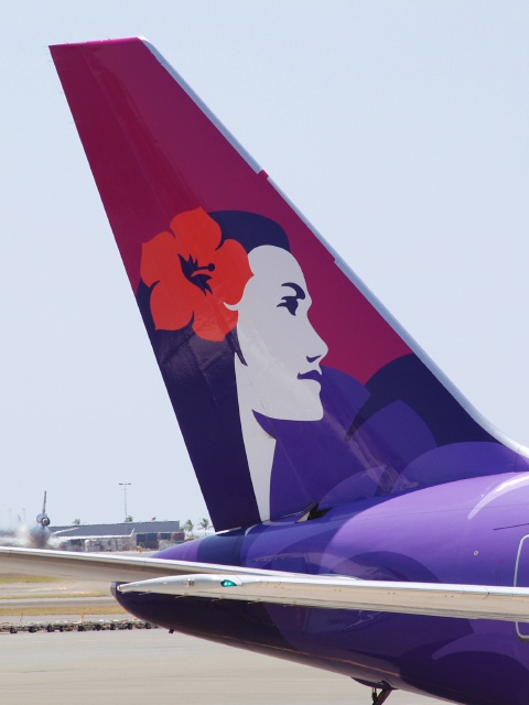 Hawaiian Airlines tail livery. (p4056860)